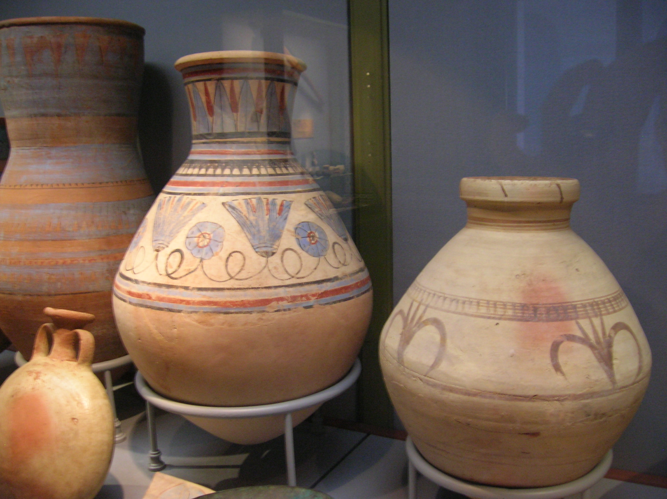 Vases with lotus motifs from ancient Egypt. Kunsthistorisches Museum, Austria.